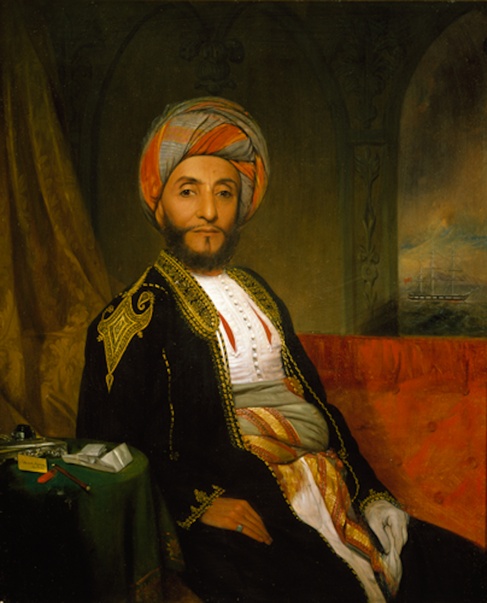 Ahmad bin Naaman was the first Arab and Omani ambassador to the US.